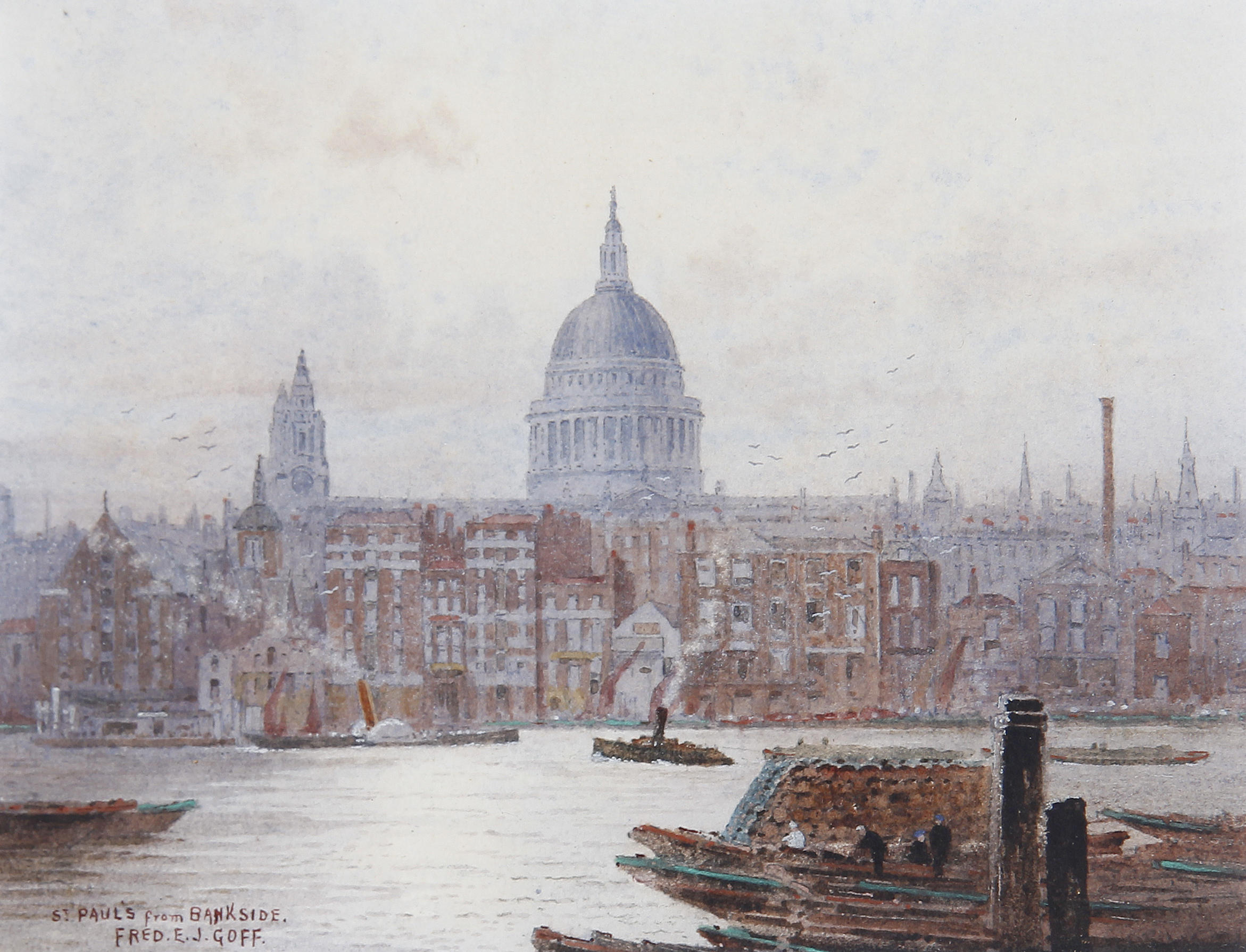 St Paul's from Bankside. Signed and inscribed ST PAUL'S from BANKSIDE./FRED.E.J.GOFF. Watercolour heightened with white, 10.5 x 14.5 cm